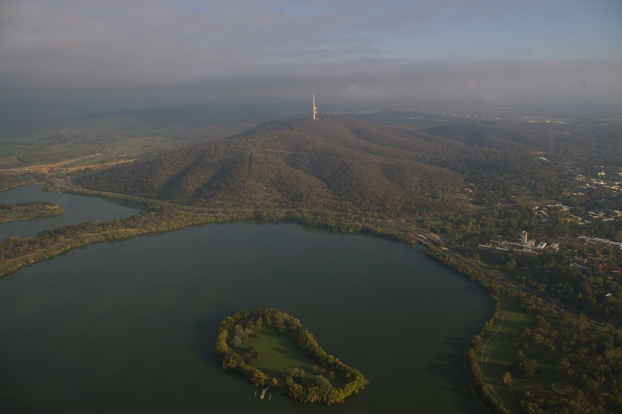 An aerial view of Lake Burley Griffin (including Springbank Island) and Black Mountain, in Canberra, ACT, Australia.